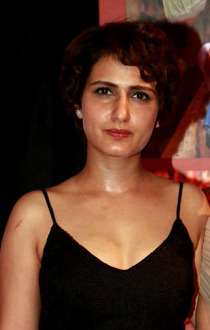 Fatima Sana Shaikh at Success party of Dangal .